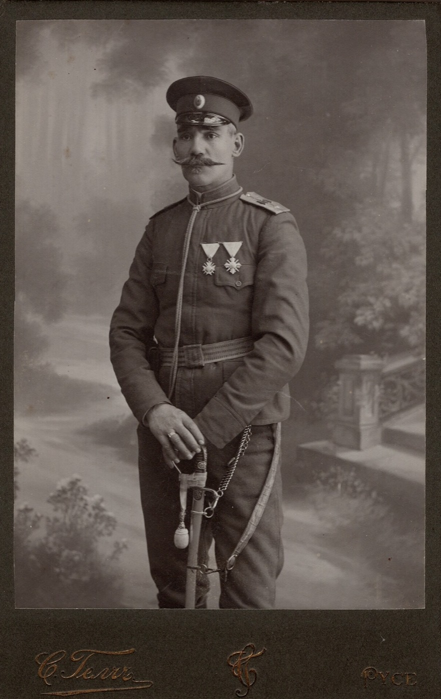 Louis-Emil Eyer Balkan war